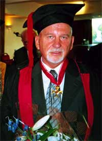 Jan Władysław Woś (London, 2002)